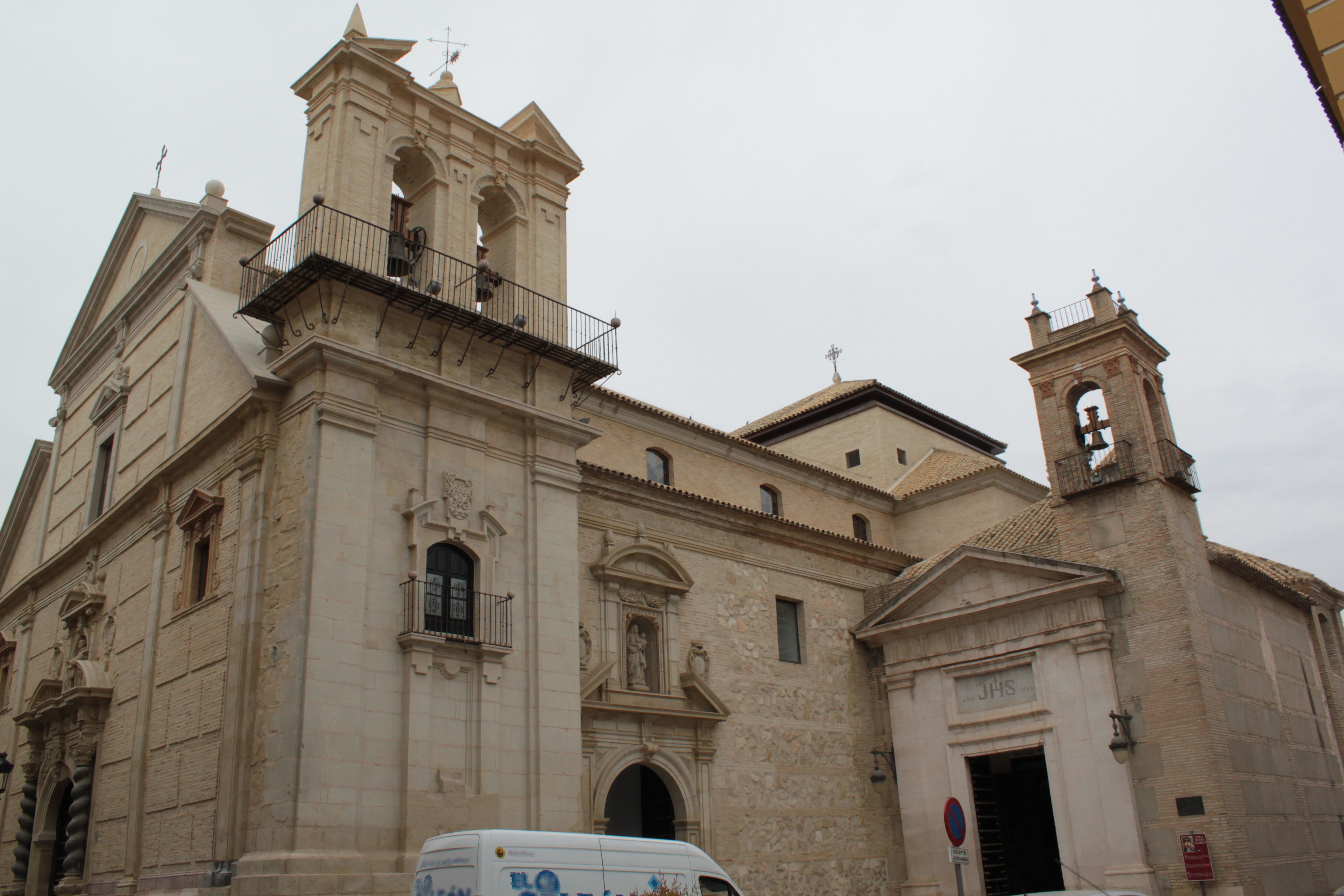 Church of Saint Peter Martyr and chapel of Our Father Jesus Nazarene. Lucena (Spain).